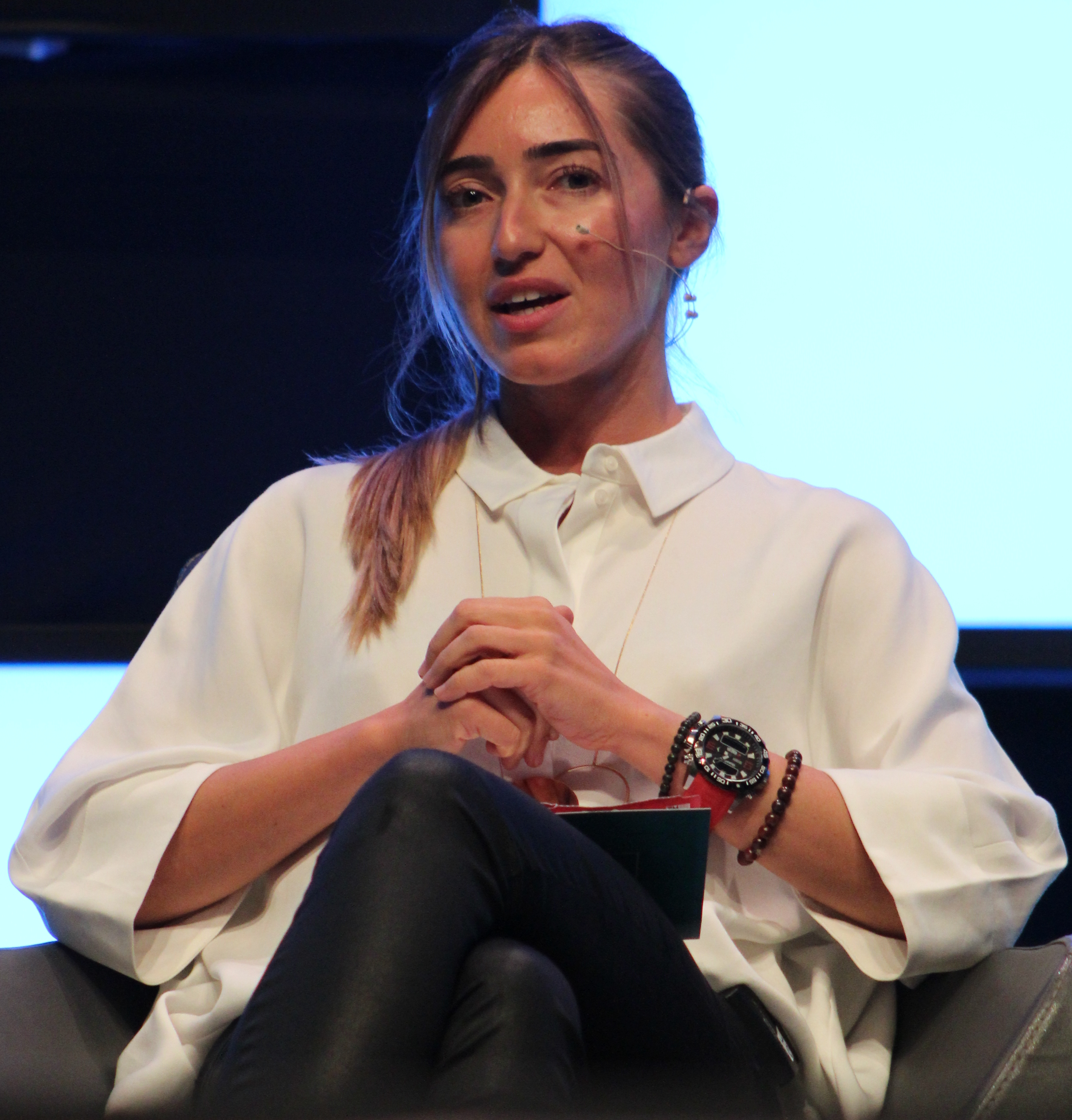 Şahika Ercümen at 2016 Turkey Innovation Week